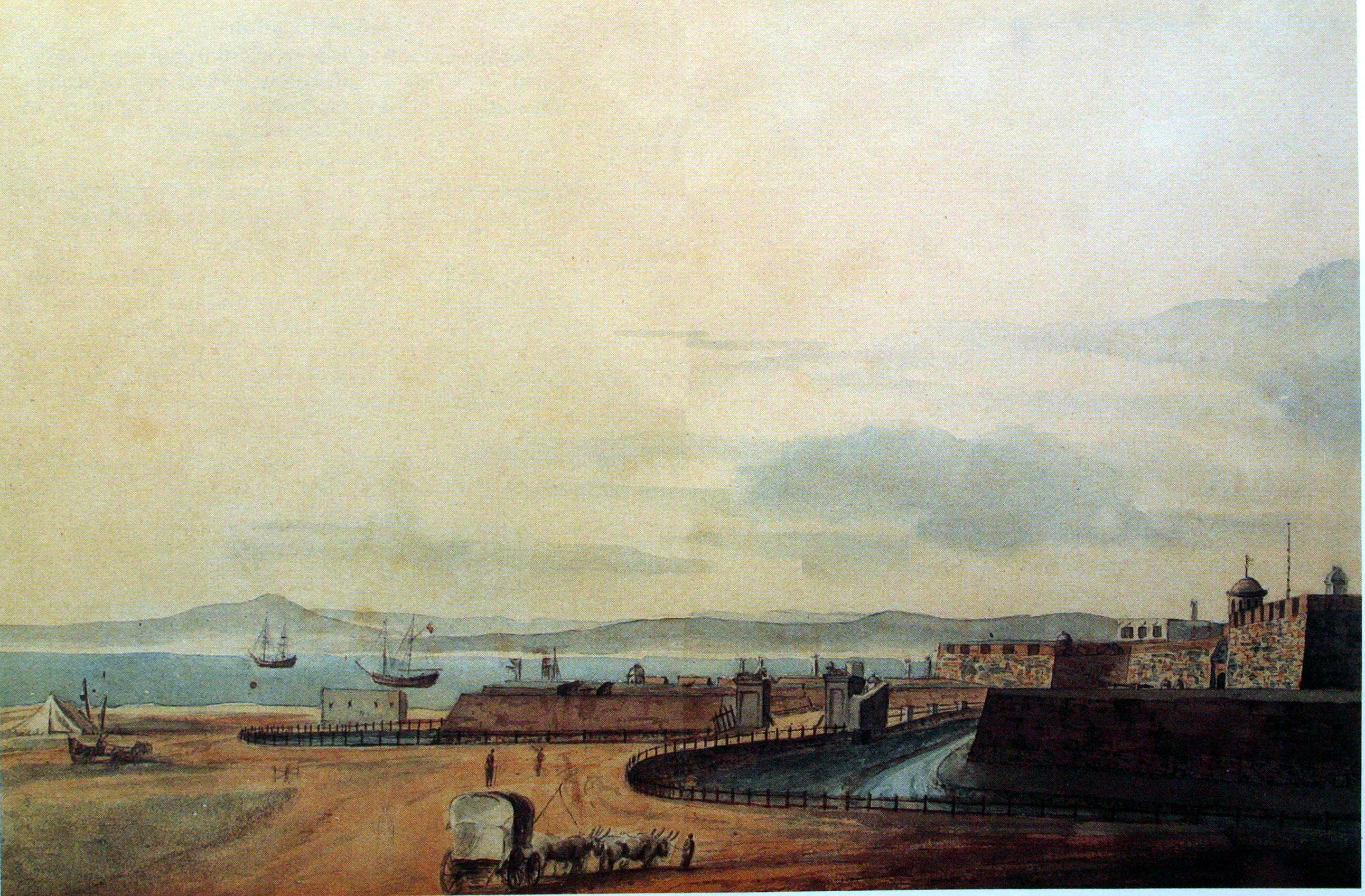 The Castle at Cape Town in about 1800 (watercolour by John Barrow, Africana Museum, Johannesburg)